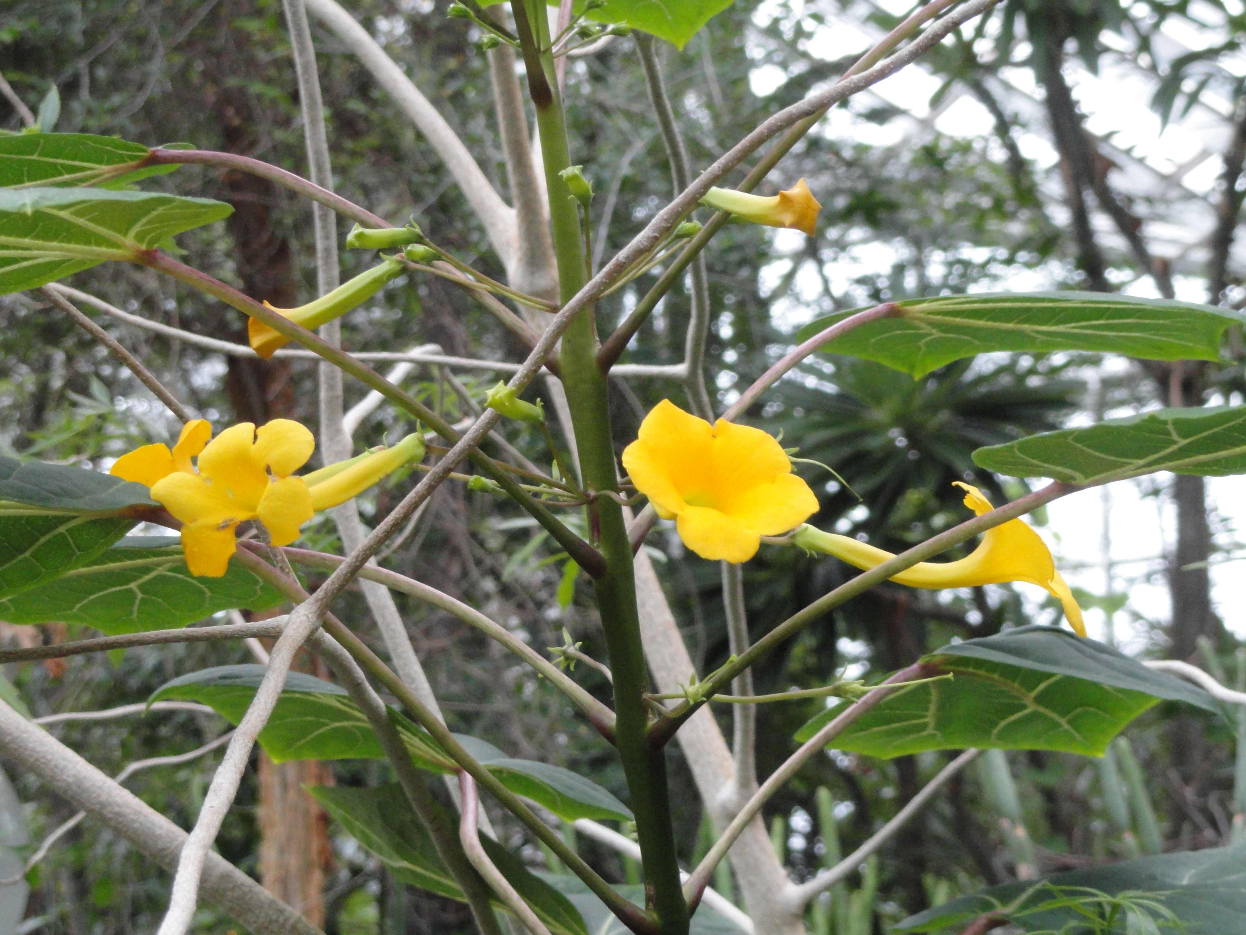 Botanical specimen in the Palmengarten, Frankfurt am Main, Germany.